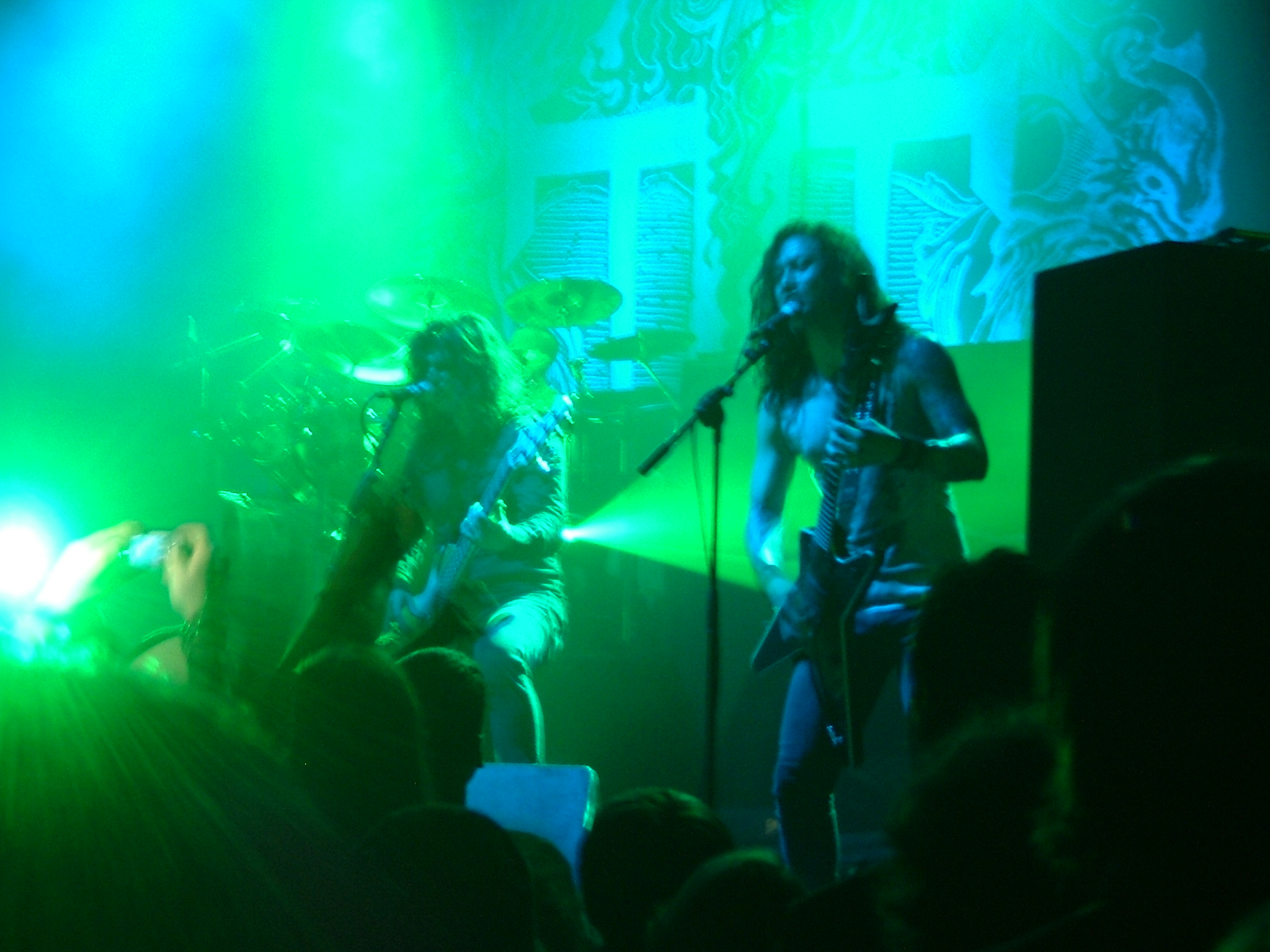 Matthew Heafy (right) and Paolo Gregoletto (left) of US-american thrash metal band Trivium at a concert in Linz